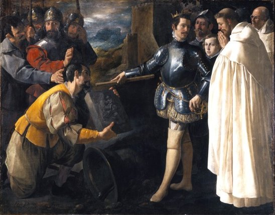 Saint Peter Nolasco Recovering the Image of the Virgin by Francisco Zurbarán, 1630, Cincinnati Art Museum